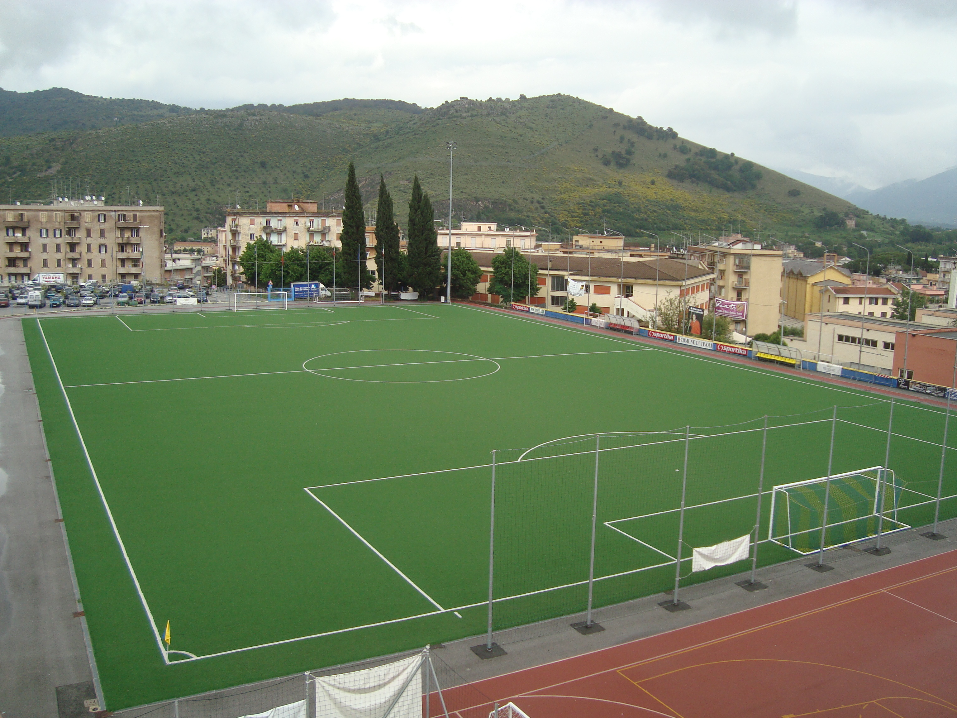 The historical soccer stadium in Tivoli